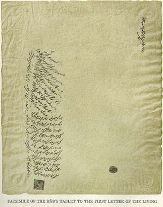 Facsimile of the Báb's tablet to the first Letter of the Living.